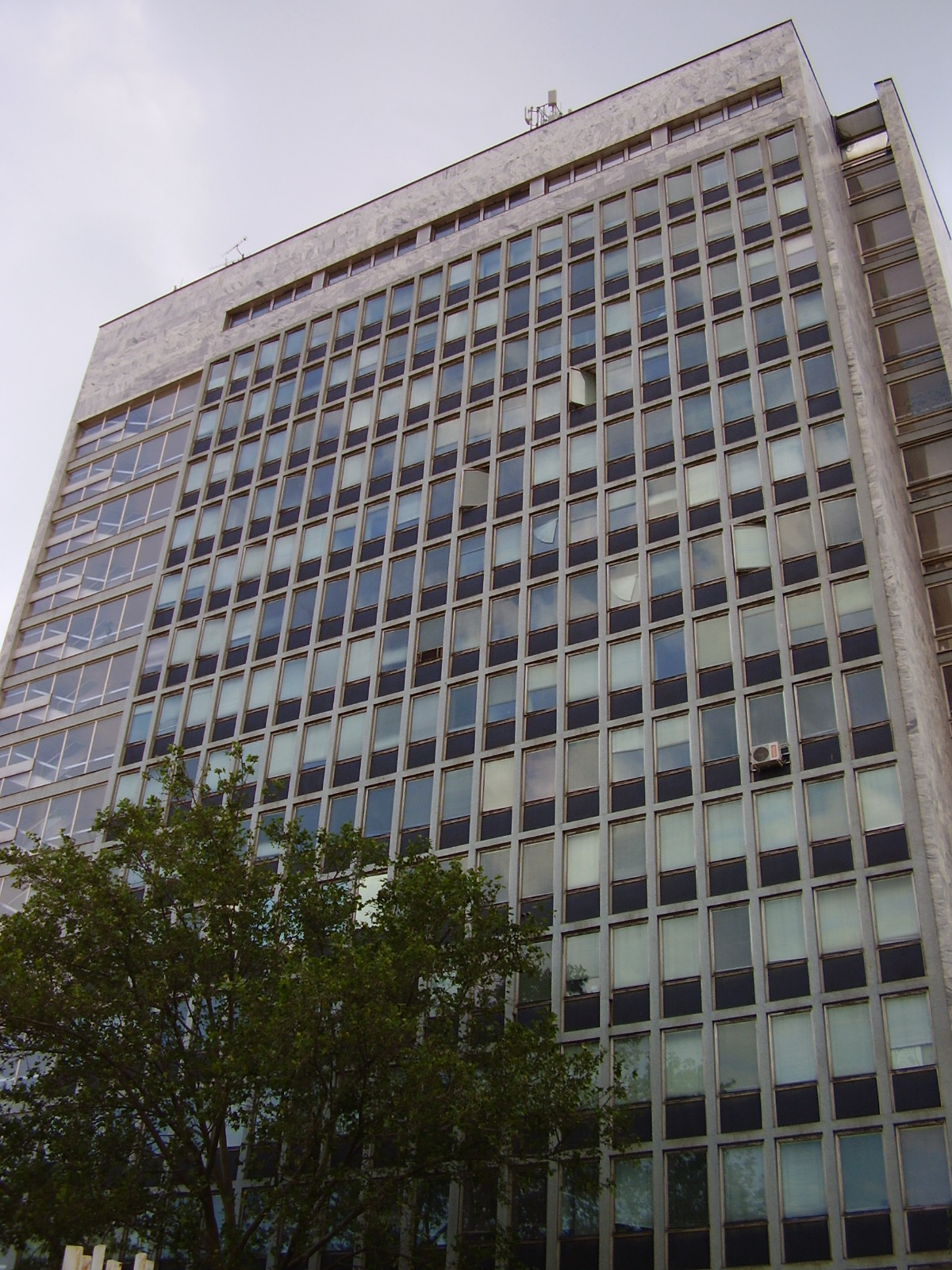 Istropolis building in Bratislava , Slovakia